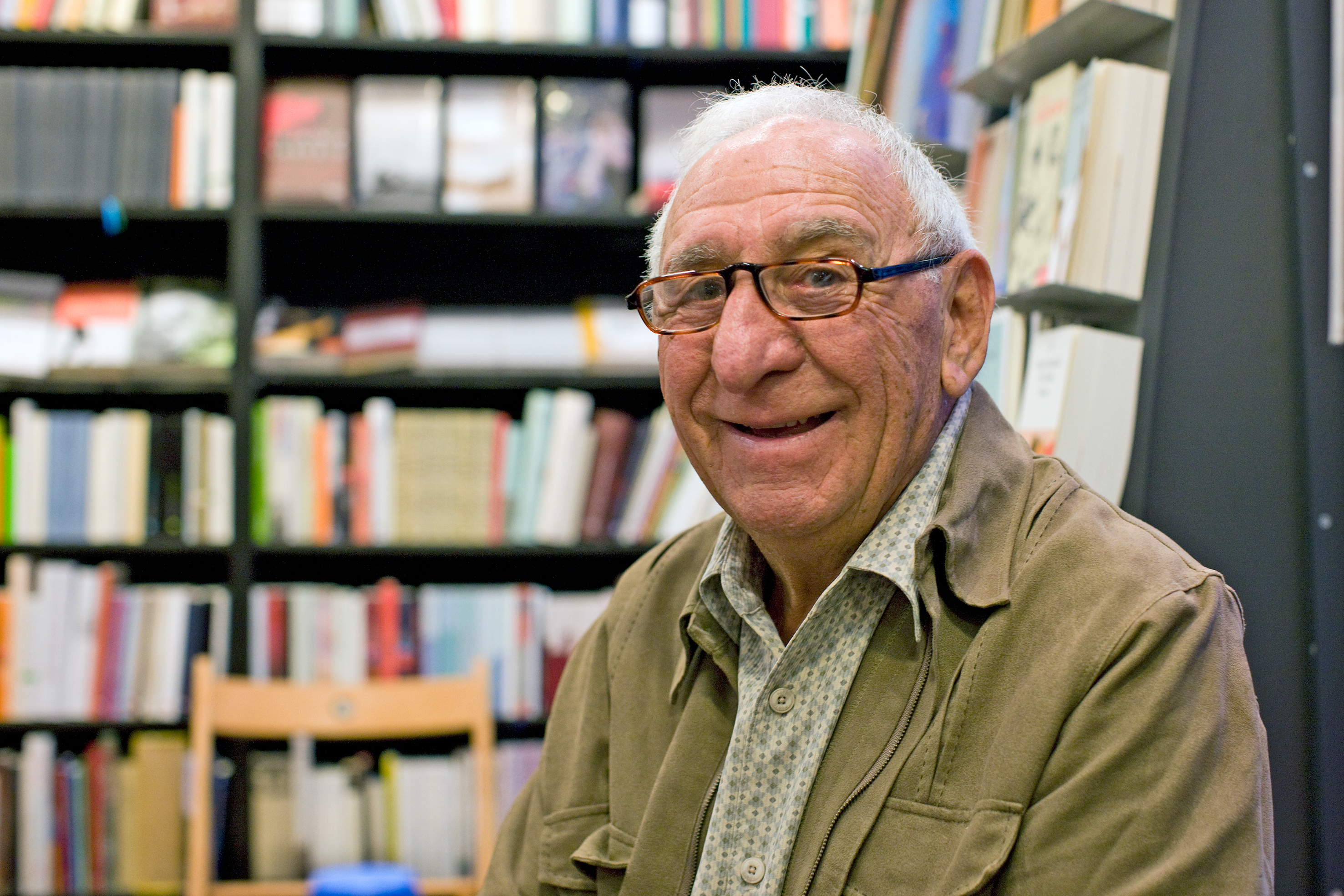 Raymond Federman at Cologne, 20080620